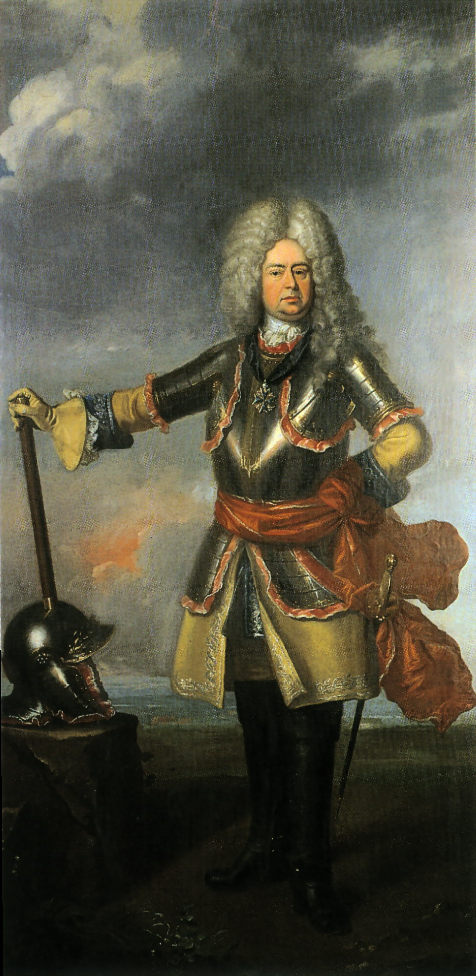 Daniel Wolff, baron van Dopff (1650-1718), painted for the Gouvernors Palace in Maastricht by Johann Valentin Tischbein (after contemporary portraits?), ca 1750. Museum collection of Schloss Fasanerie, Fulda, Germany.